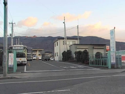 Fujikyu Heiwa Kanko Kofu branch